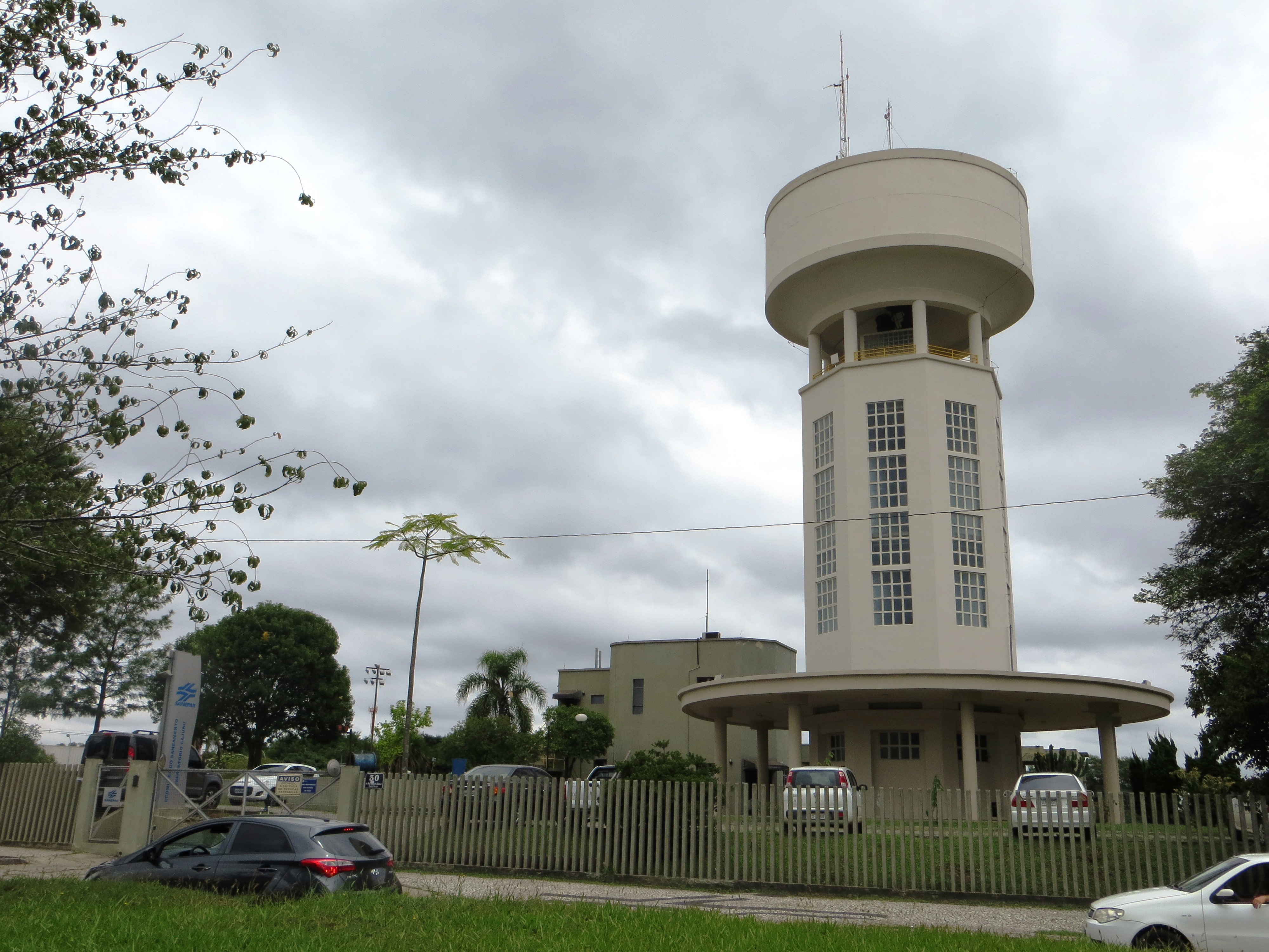 Box Water Sanepar, Alto da XV, Curitiba, Paraná, Brazil.